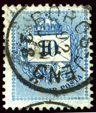 Kingdom of Hungary, 10 kr blue, issue 1881, Hungarian (late) cancel at BOROS-JENŐ (Western Transylvania) in 1892.